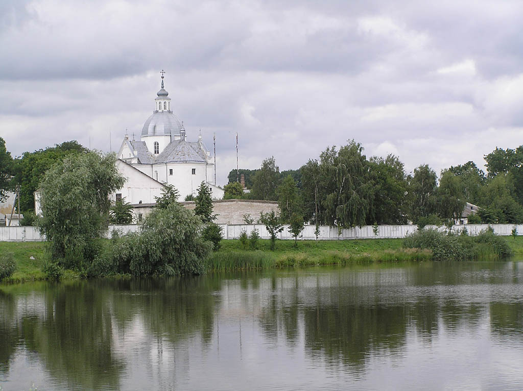 Church of the Corpus Christi, Niasvizh